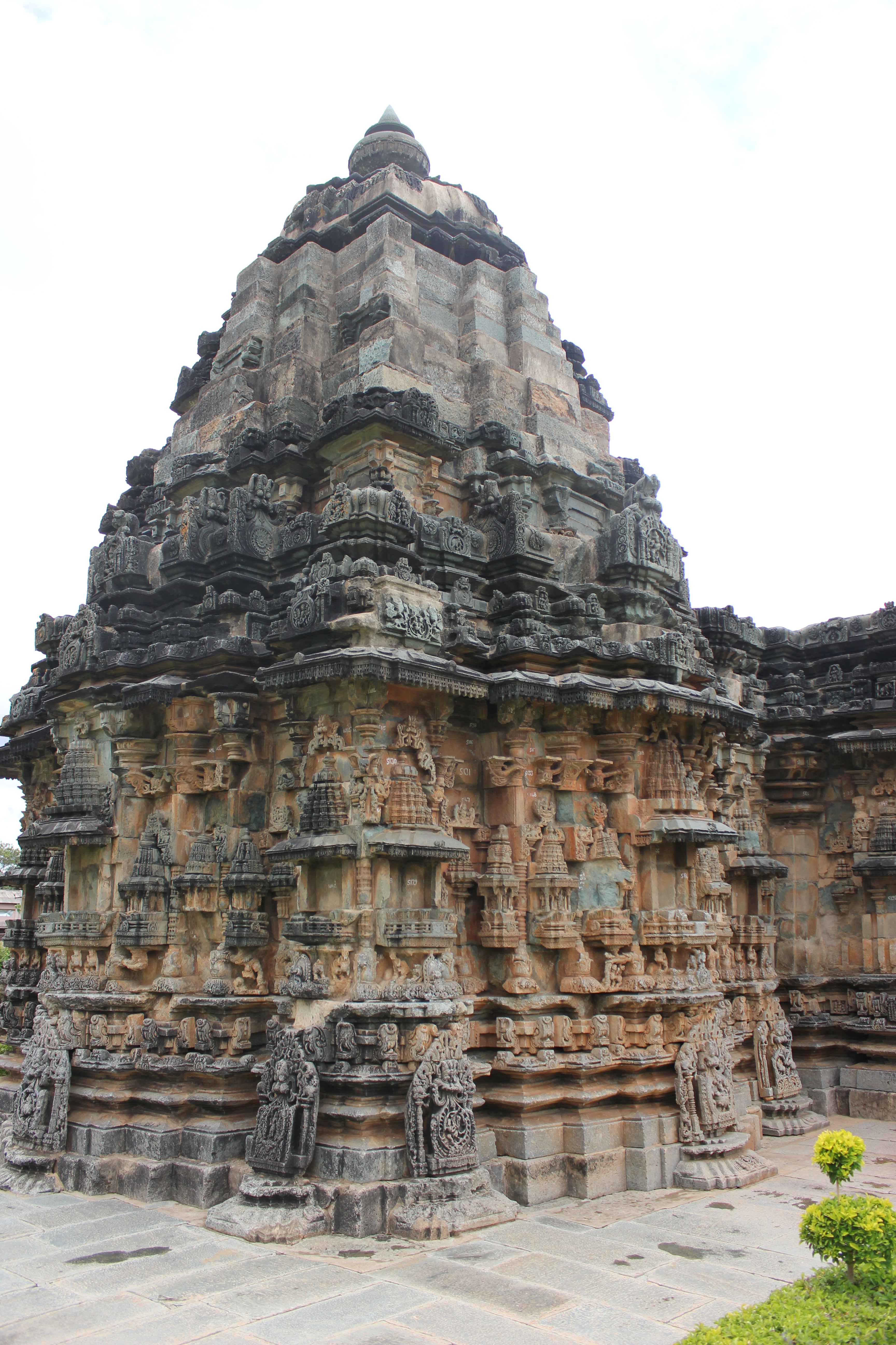 This photograph was taken by me at the Kalleshvara temple (also spelt Kalleshwara or Kallesvara) in Hire Hadagali, Bellary district, Karnataka state, India. The temple was built in 1057 A.D. by Western (Kalyani) Chalukya King Somesvara I.